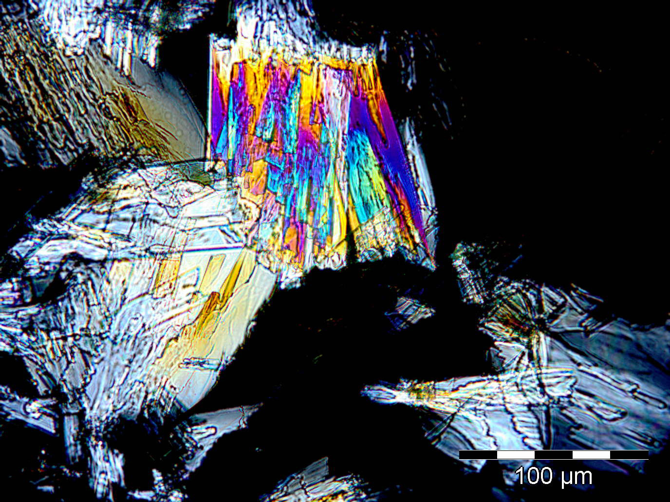 Crystals von Resveratrol under a petrographic microscope with crossed polarizers.